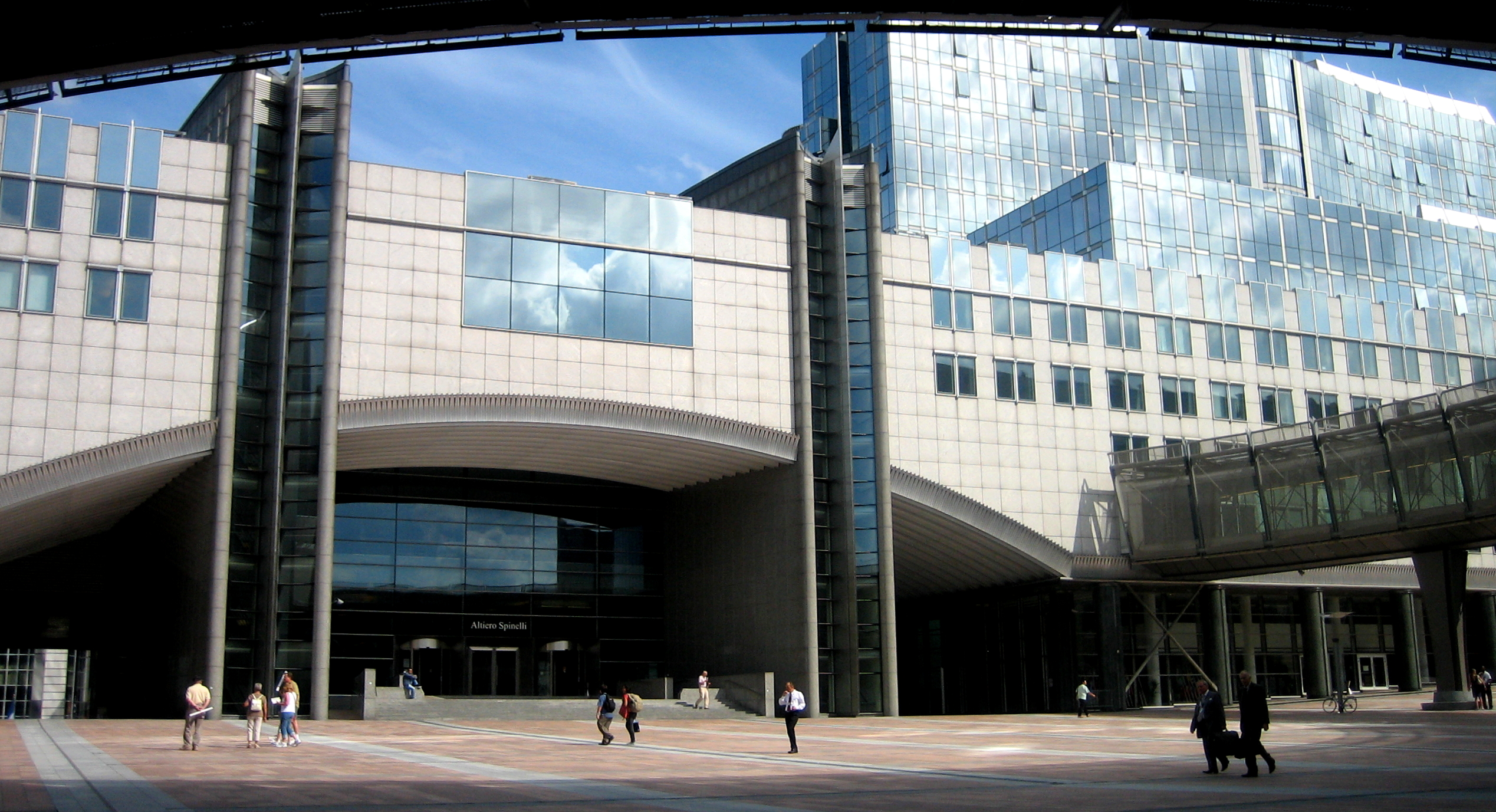 European Parliament in Brussels, view of the west side of the Altiero Spinelli building across the Mall